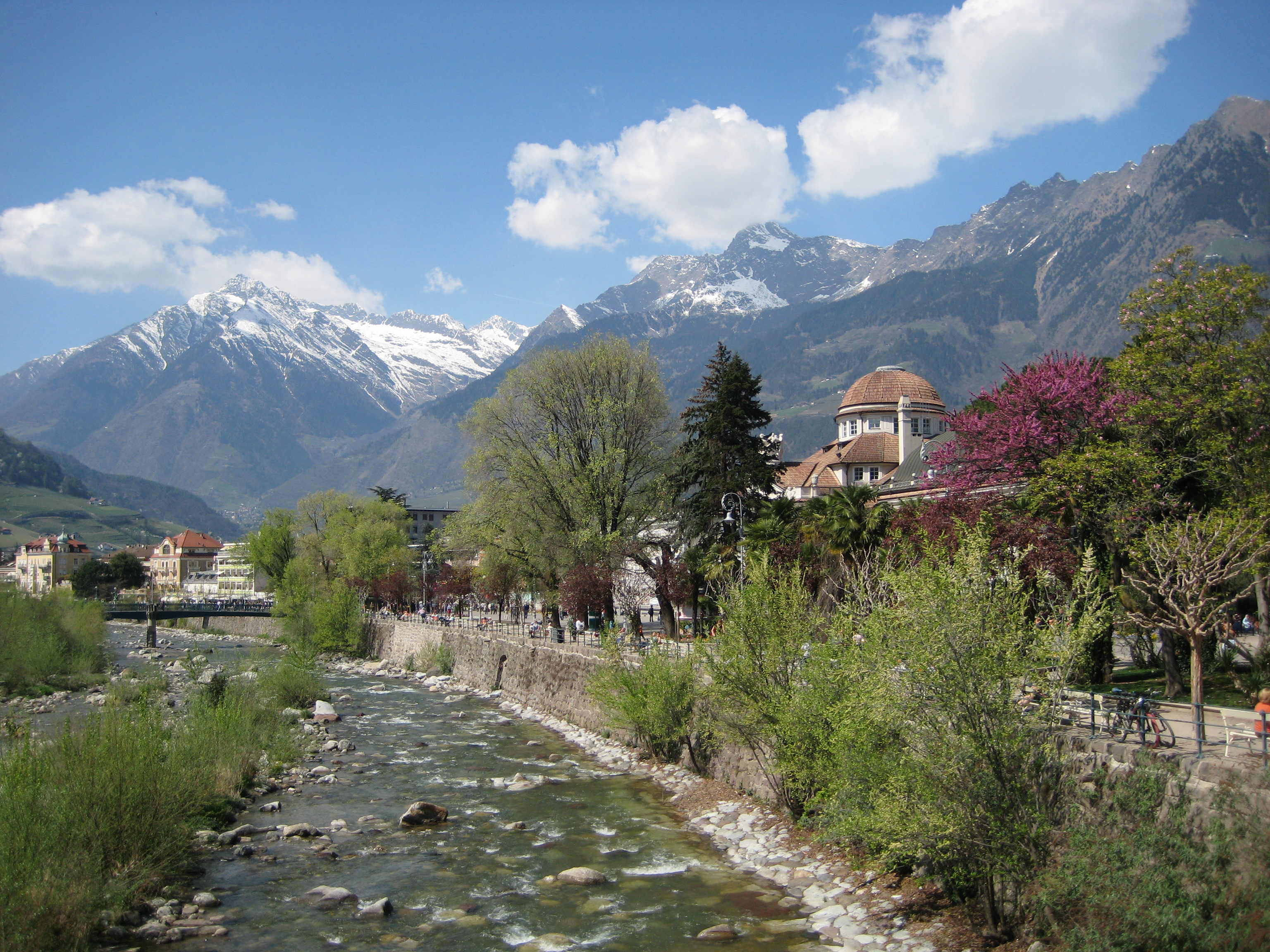 The Passer, Meran, South Tyrol